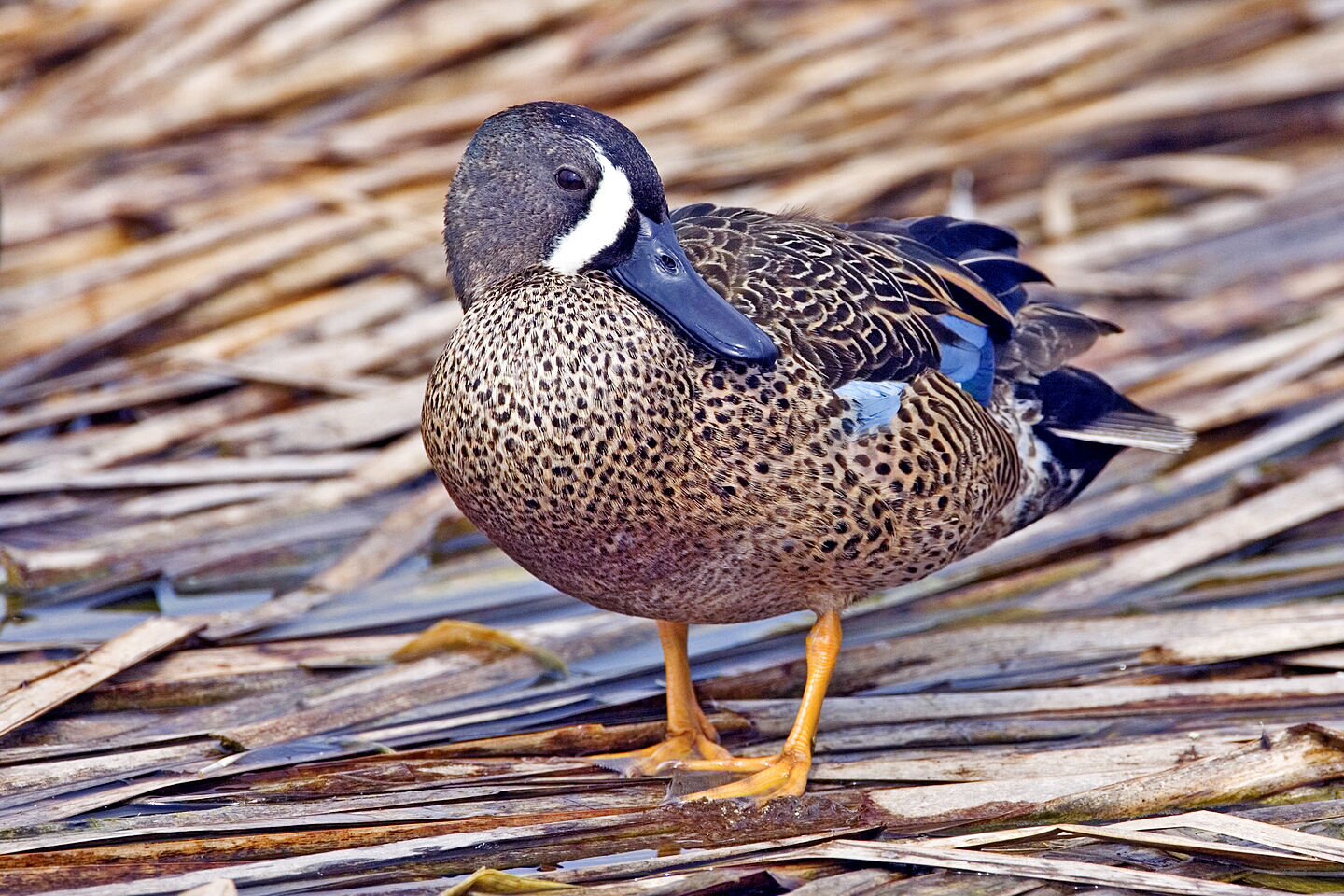 Blue-Winged Teal, Birding Center, Port Aransas, Texas